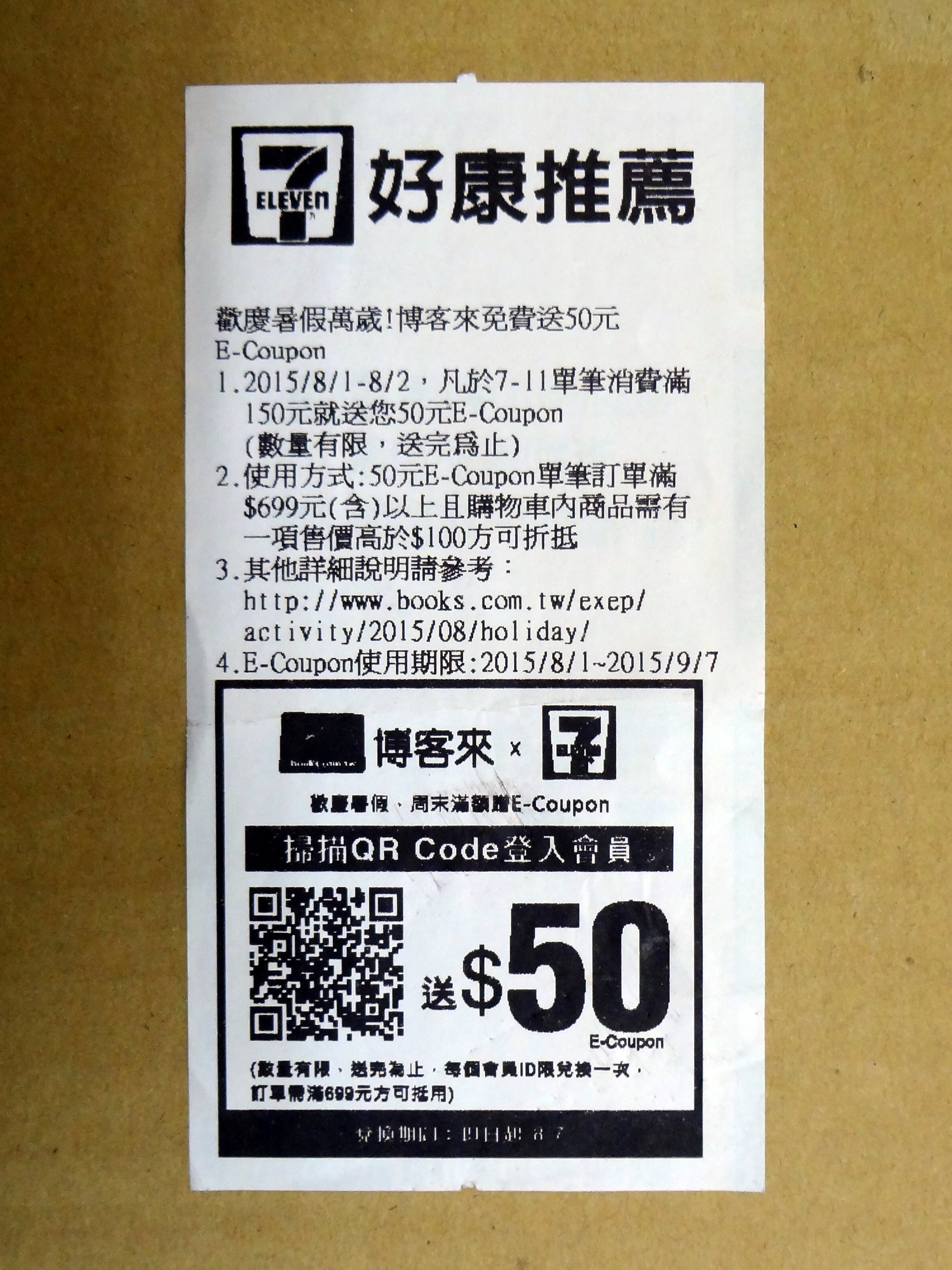 E-Coupon